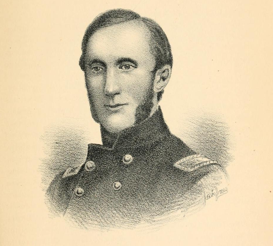 Drawing of Colonel Thomas H Marshall of the Maine 4th and 7th Regiments in the Civil War